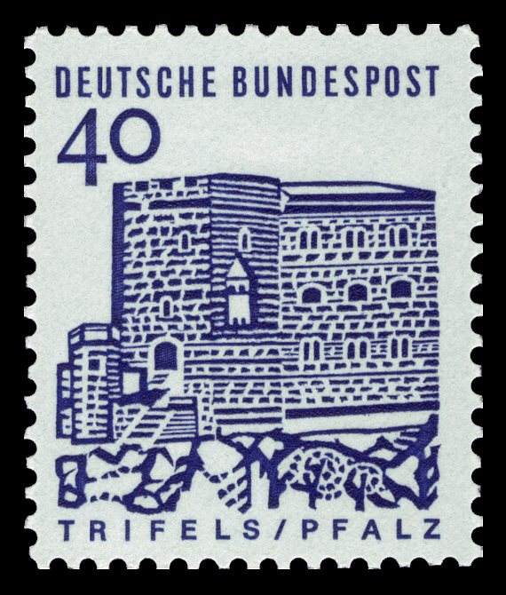 Series I of German architecture of 12 centuries